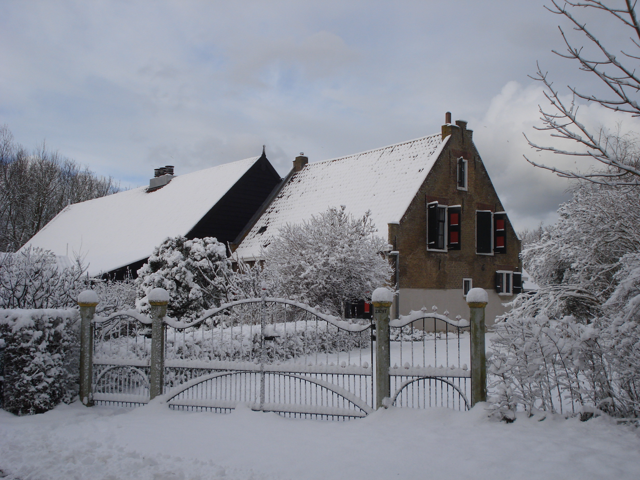 The Zeezicht farmhouse in Ouddorp, South Holland, the Netherlands, in the snow.